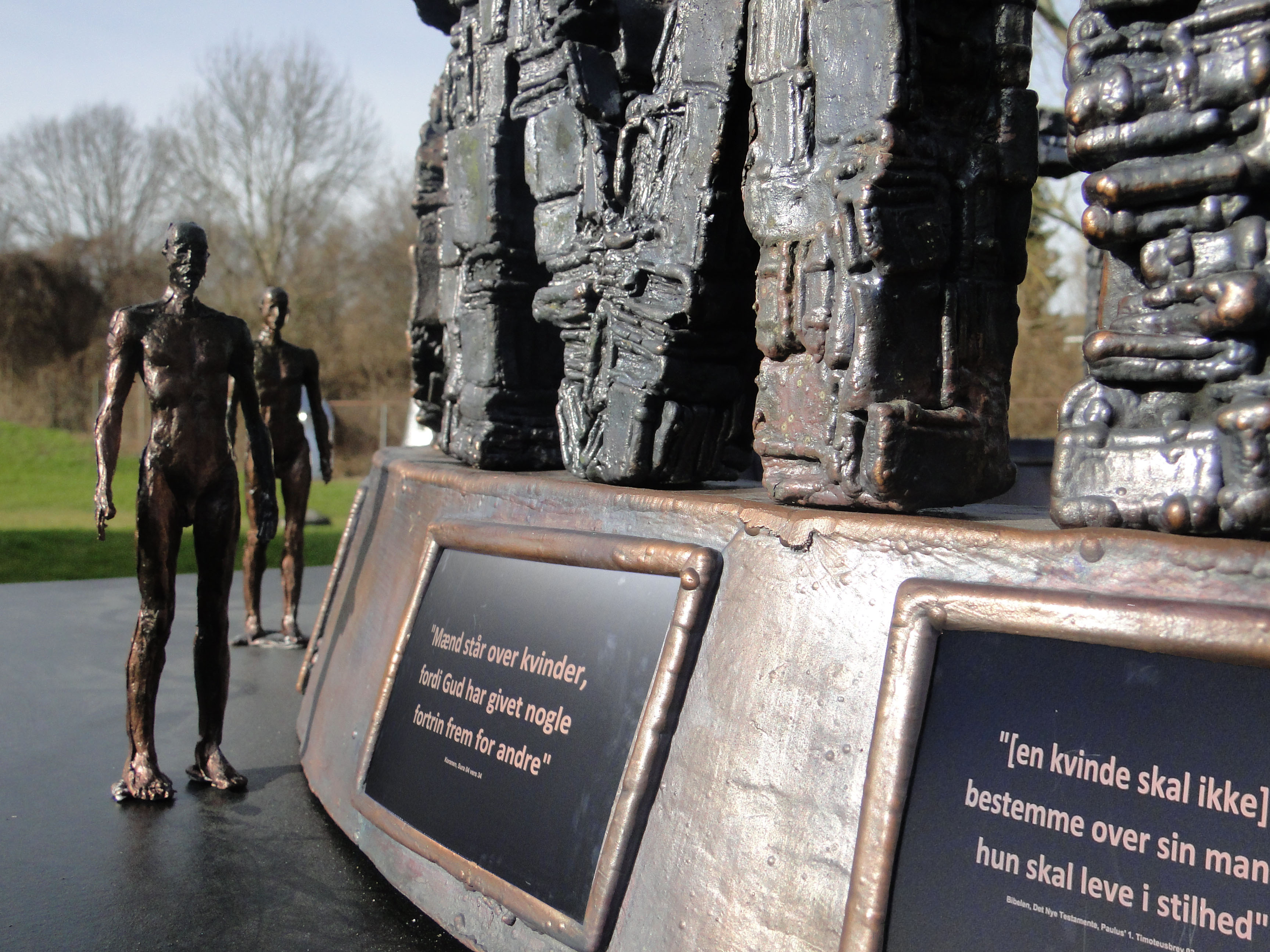 Model of the sculpture fundamentalism by Danish Artist Jens Galschiøt. A part of the project 'The Children of Abraham'.